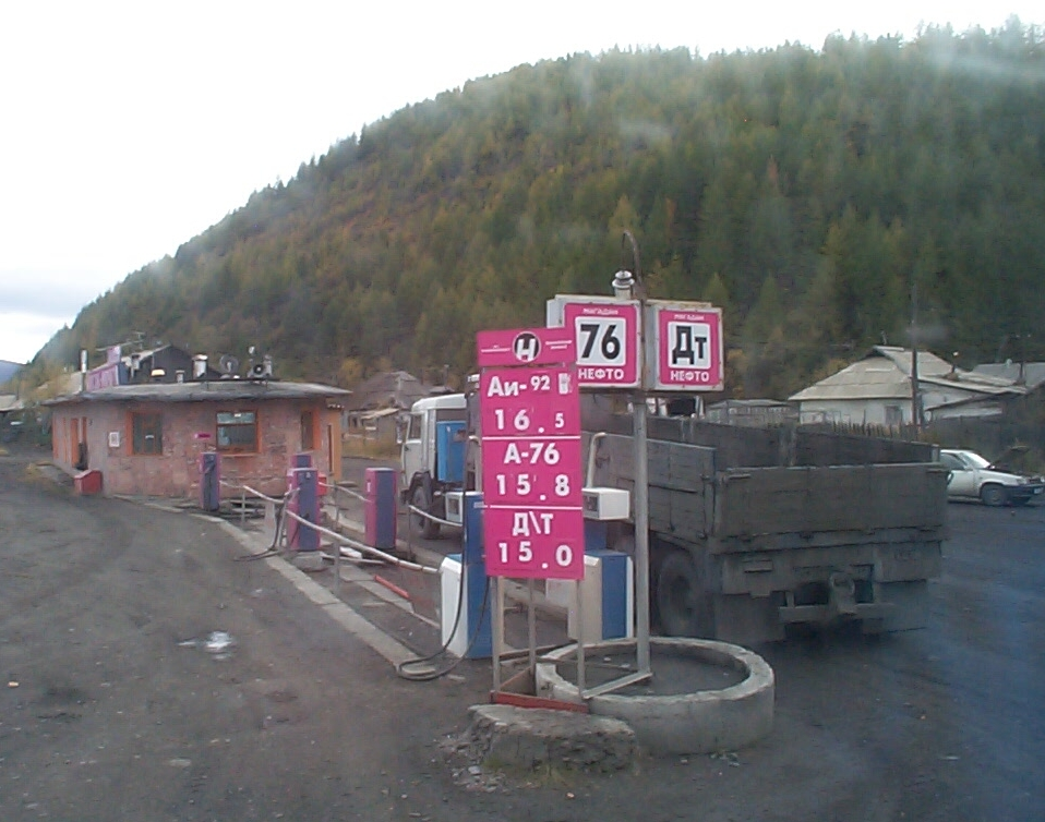 Ust-Omchug petrol station, Magadan Oblast, Siberia. Photo taken by self (Oxonhutch (talk)) 5 September 2004